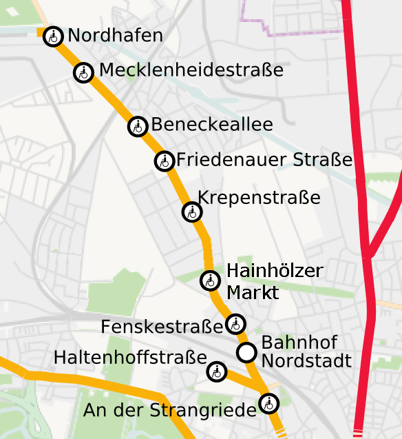 Light rail of Hannover, Germany. C North